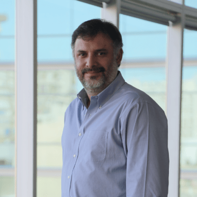 Photo of José Luis Uriarte as undersecretary of Tourism under the second administration of Sebastián Piñera in June 2020